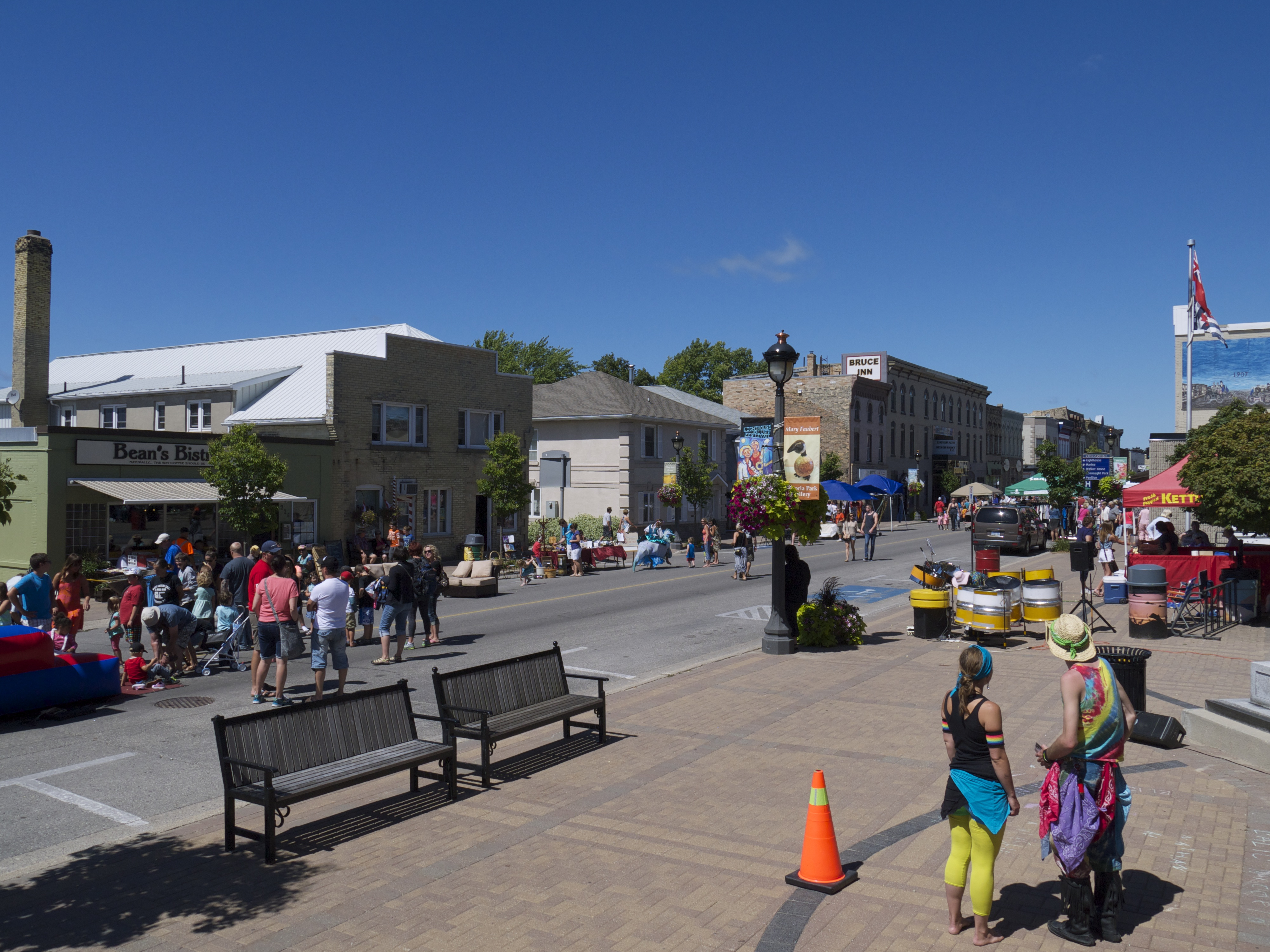 Queen Street in Kincardine, Ontario.